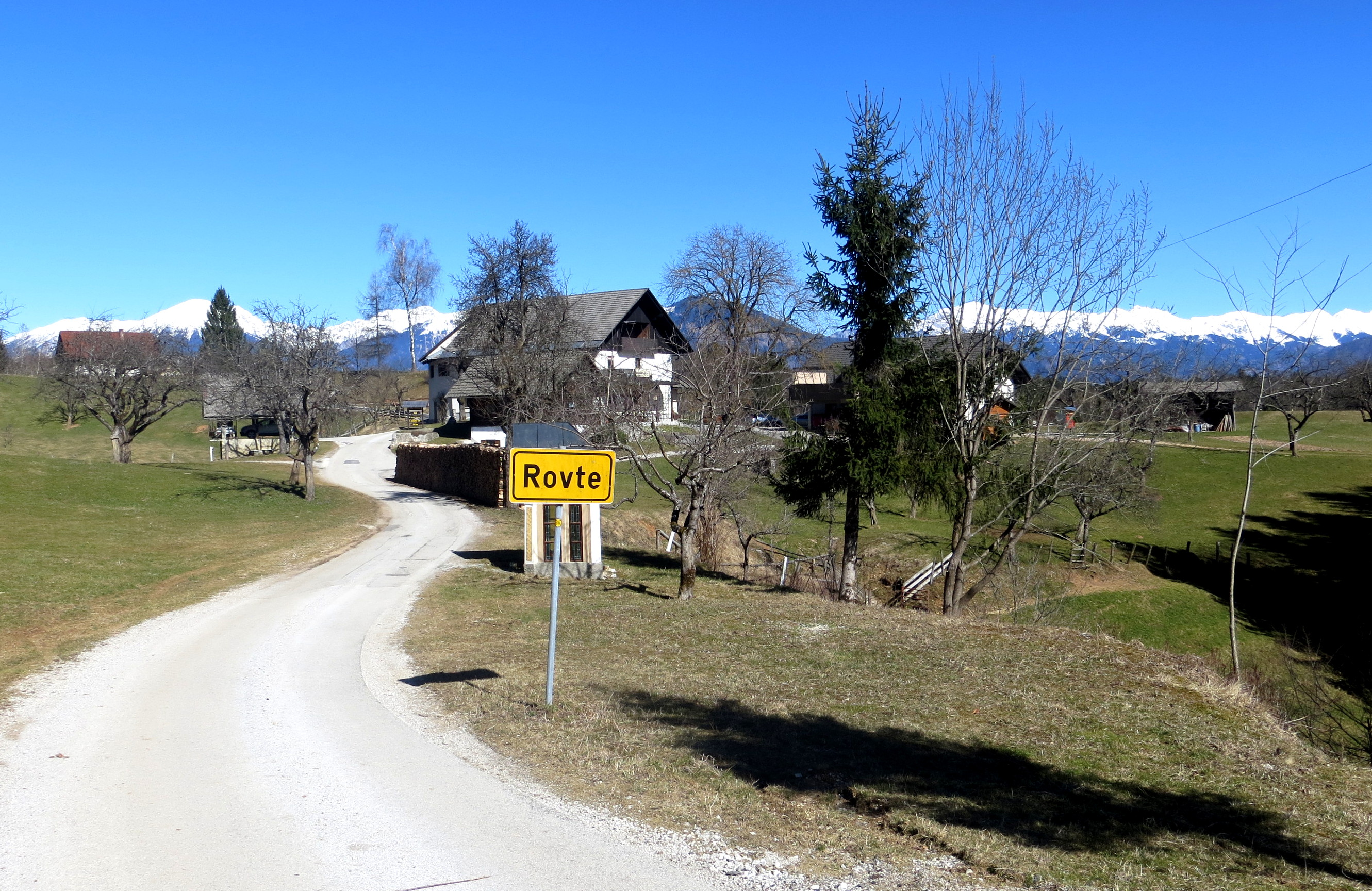 Rovte, Municipality of Radovljica, Slovenia